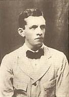 Photograph of R. H. Bruce Lockhart, 1909 (later Sir Robert Bruce Lockhart)